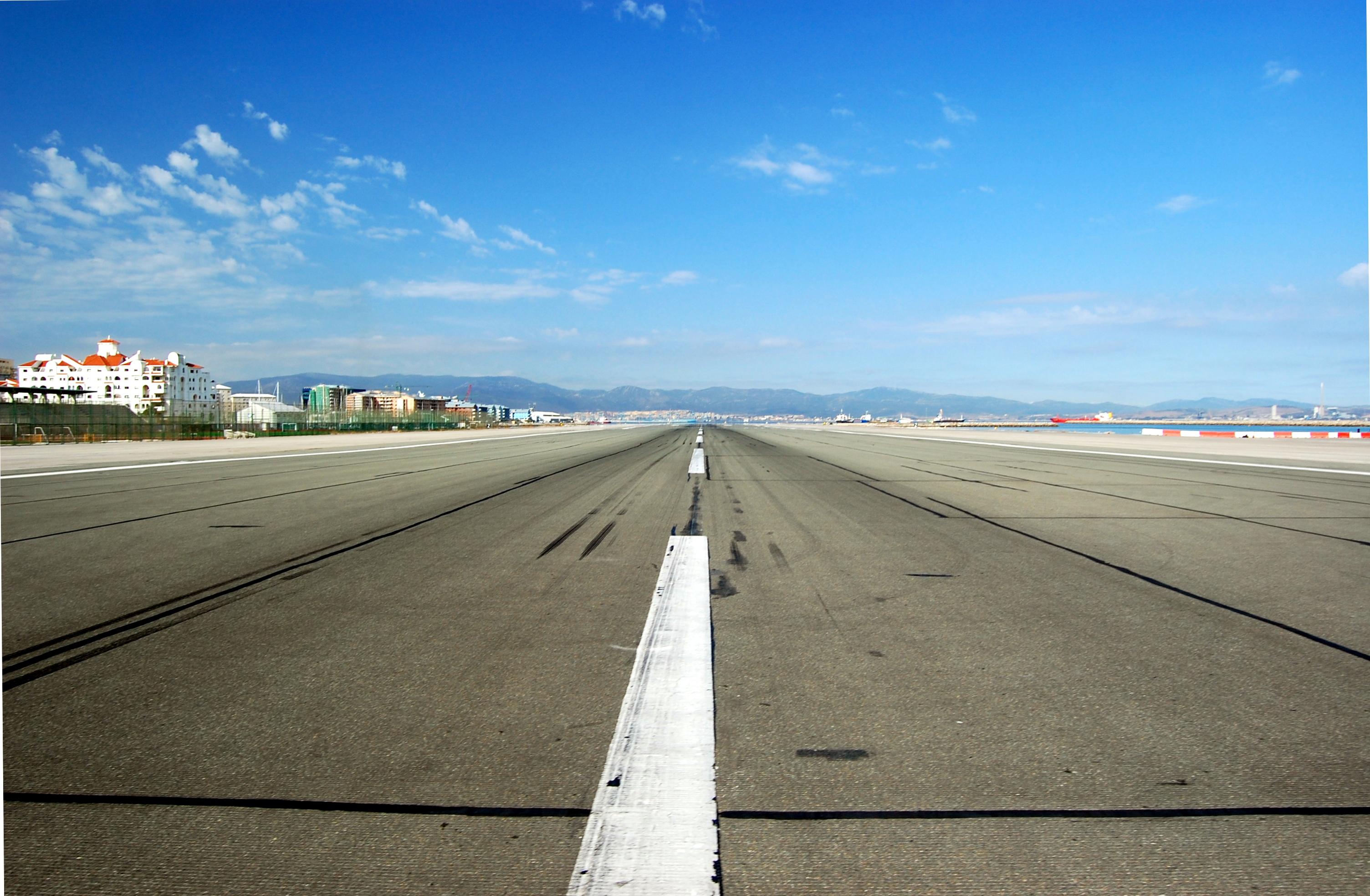 Gibraltar AirportAragonés: Aeropuerto de Chibraltar